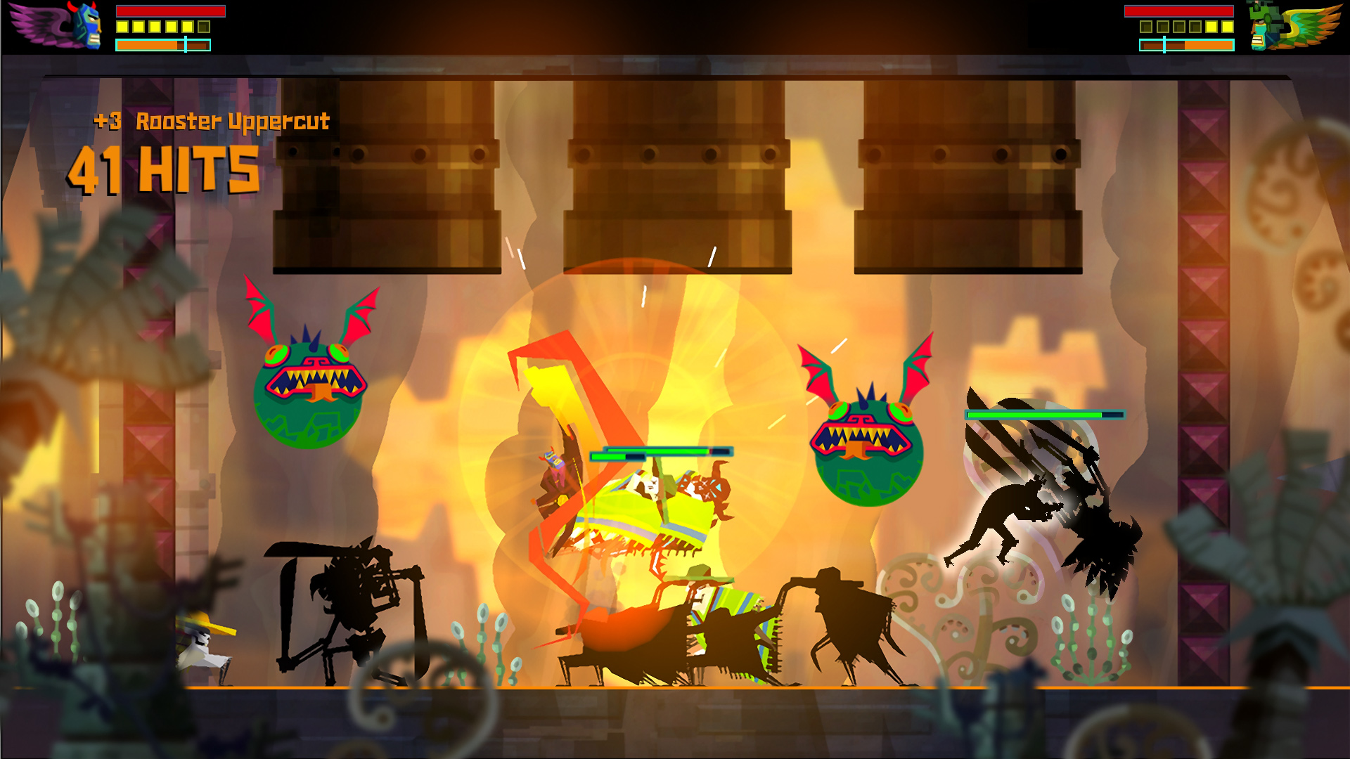 Screenshot from Guacamelee!